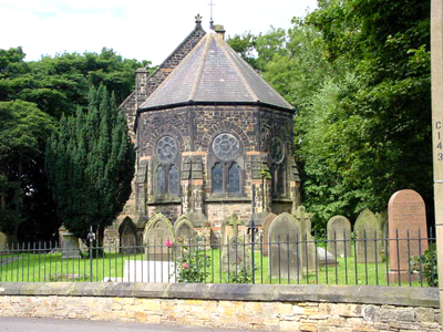 St John The Evangelist parish church, Killingworth, Tyne and Wear (formerly Northumberland), seen from the east